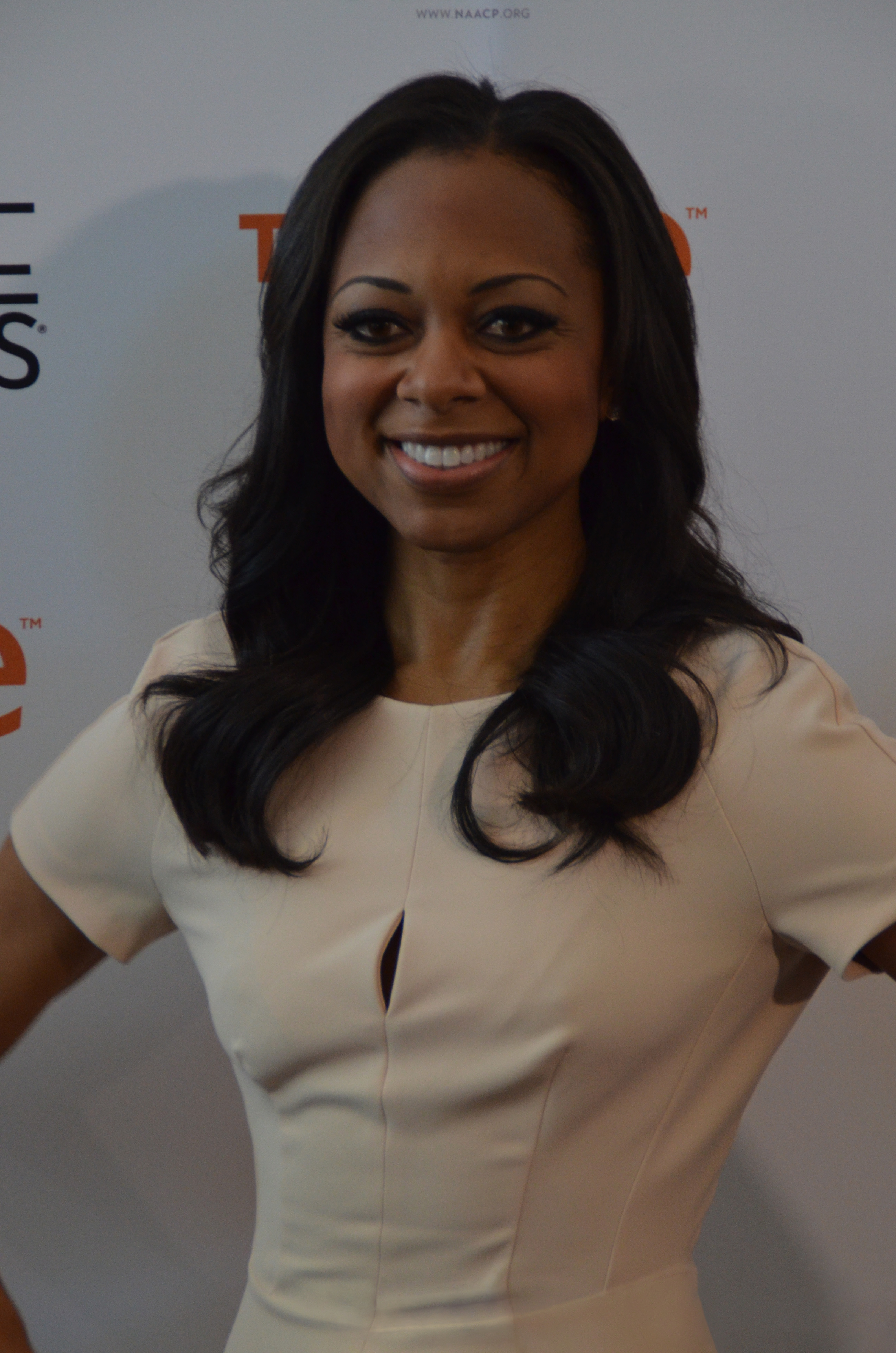 Nischelle Turner at the 46th NAACP Image Awards Nominee Press Conference at the Paley Center for Media in Beverly Hills, CA.